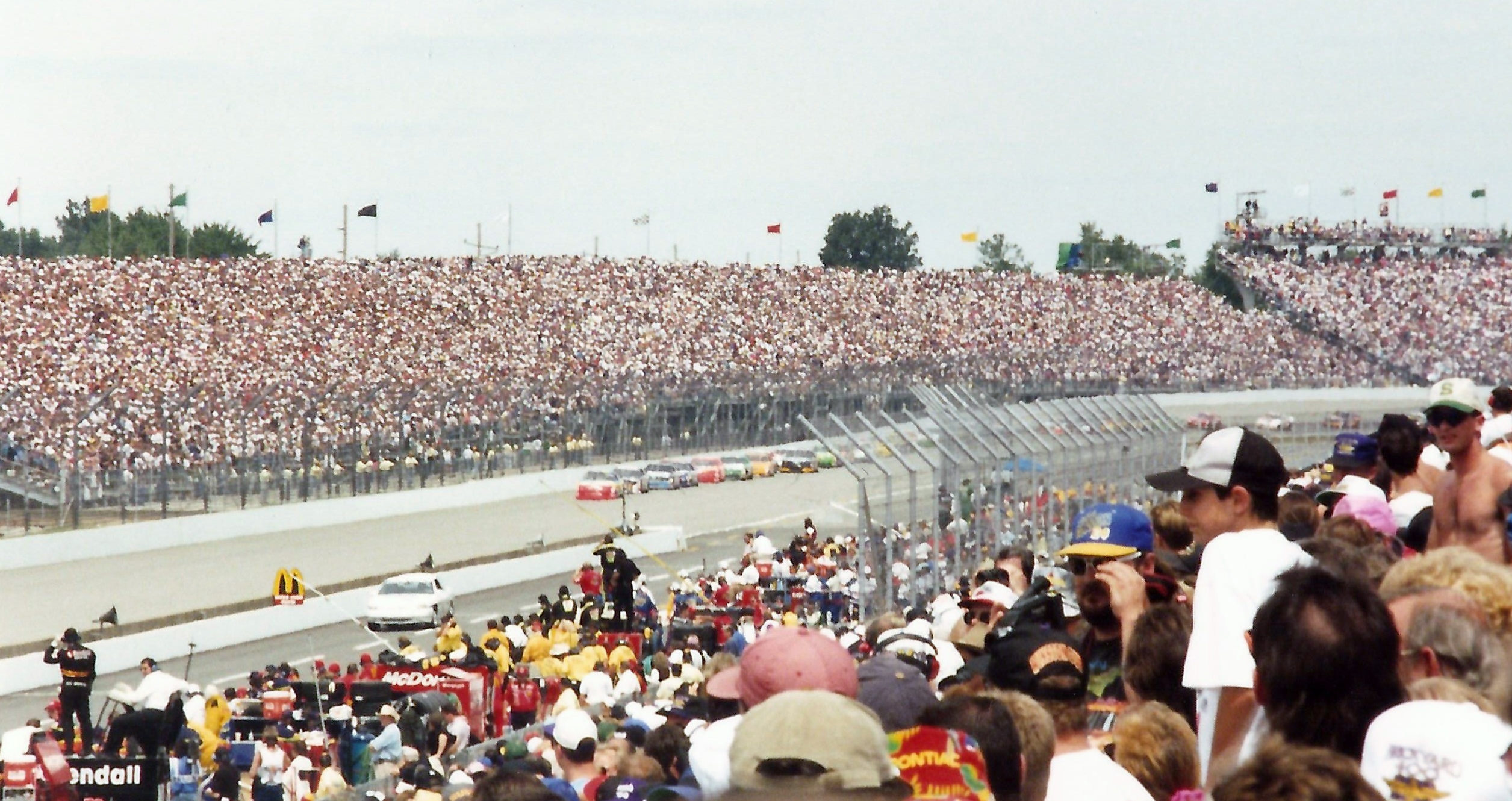 1994 NASCAR Brickyard 400 at the Indianapolis Motor Speedway. The field coming down for a restart.